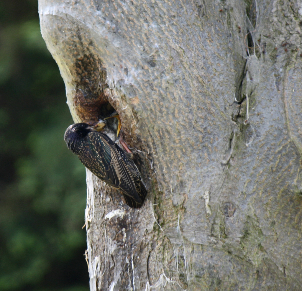 A Common Starling feeding a chick in a nest made in a hole in a tree in a cemetery at Southend-on-Sea, Essex, England.